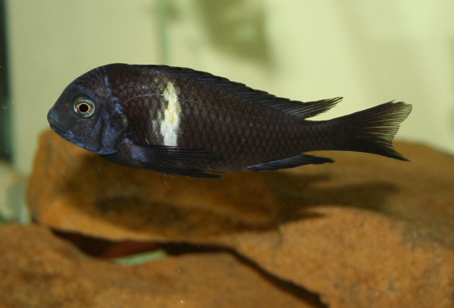 Tropheus duboisi Kigoma Photo: Dr David Midgley Own photo Category:Cichlid images